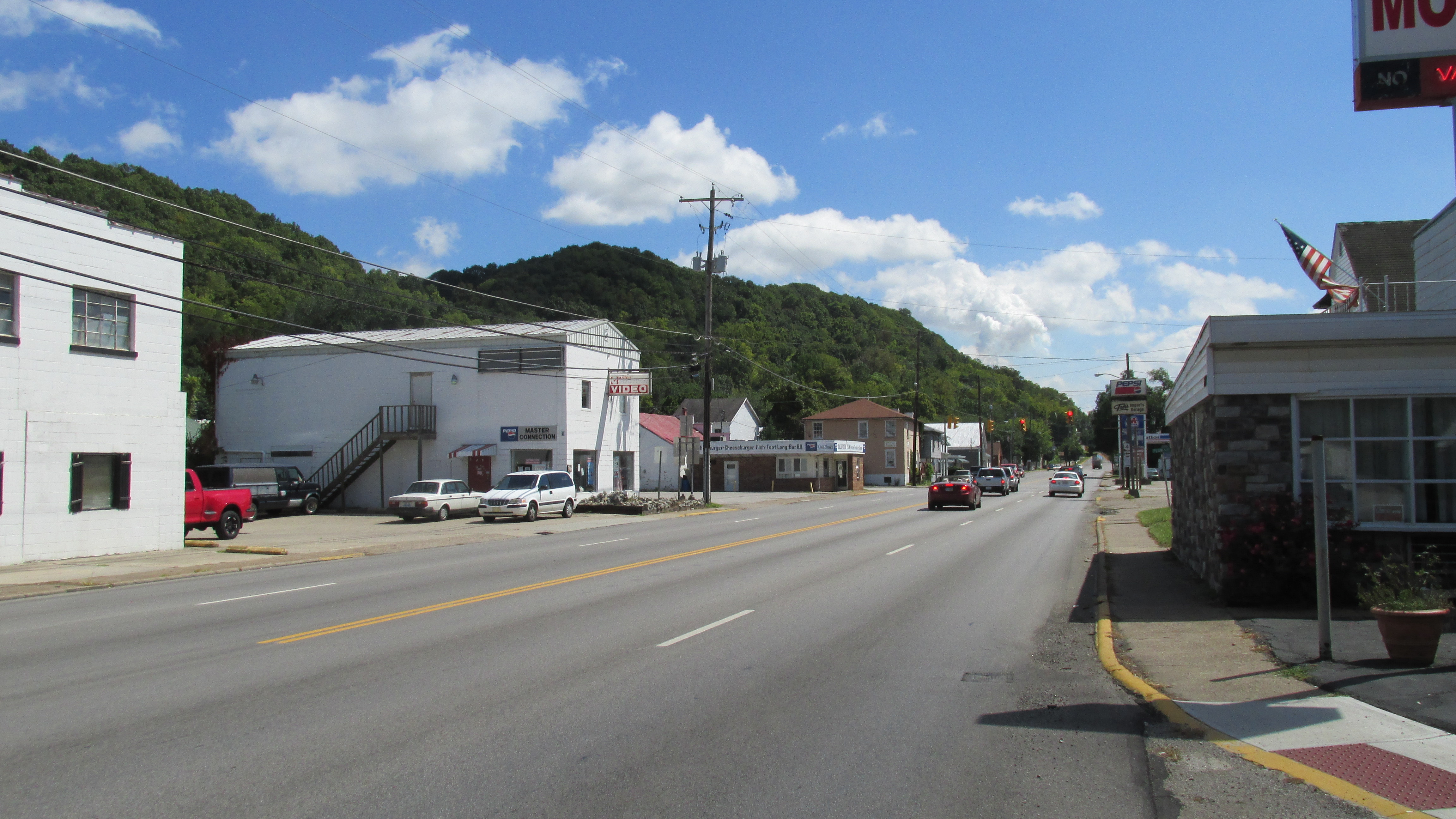 Looking east on US Highway 52 in Aberdeen, Ohio.